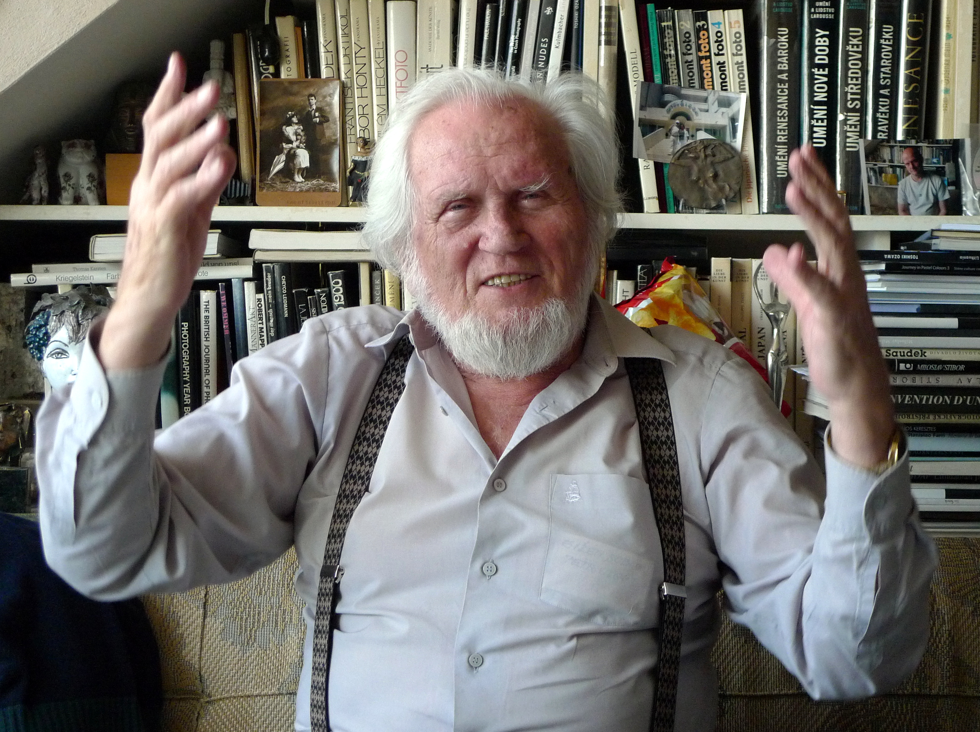 Czech Photographer Miloslav Stibor. Česky: Český fotograf Miloslav Stibor.